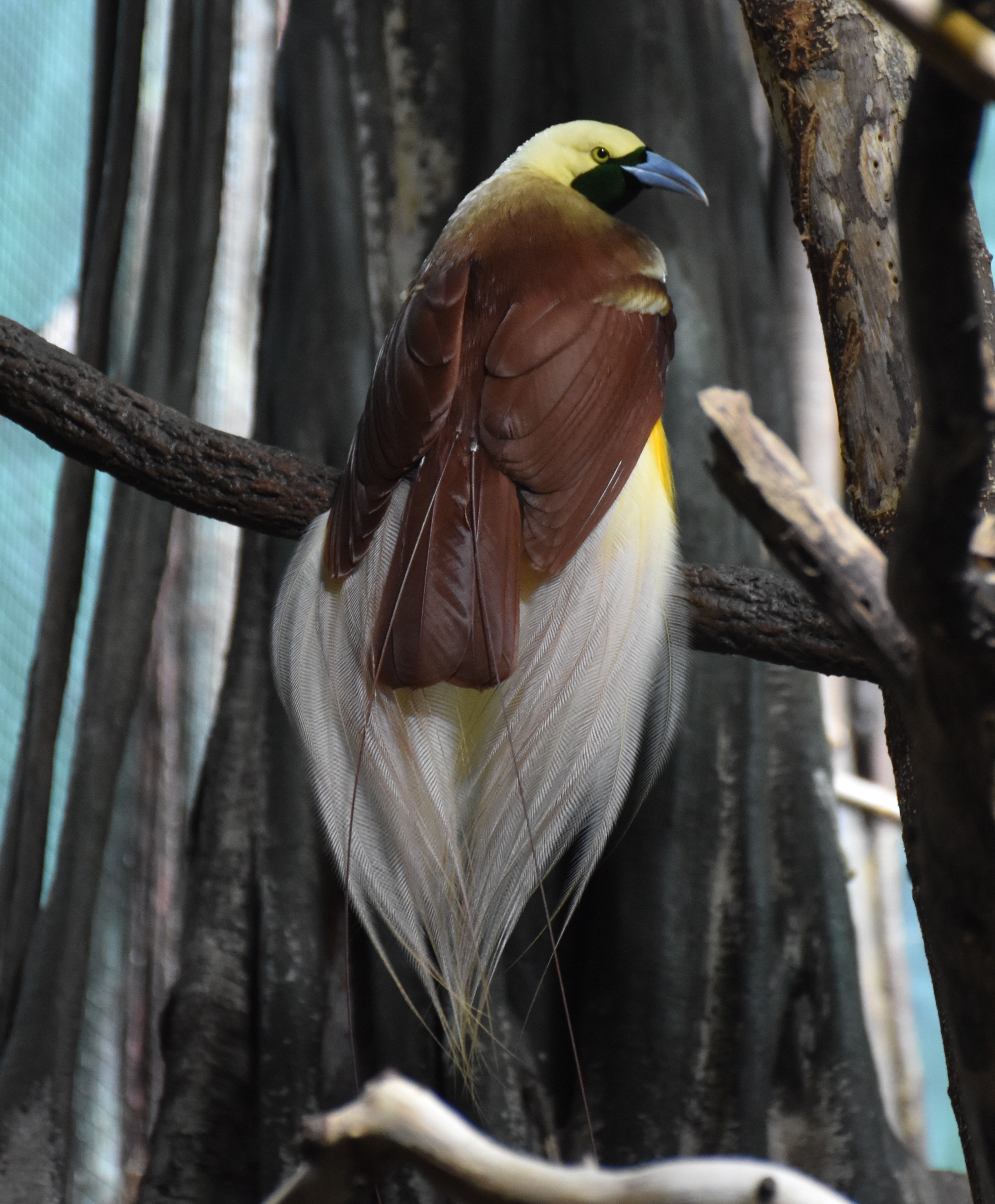 A male Lesser Bird of Paradise at the Bronx Zoo in September, 2016.